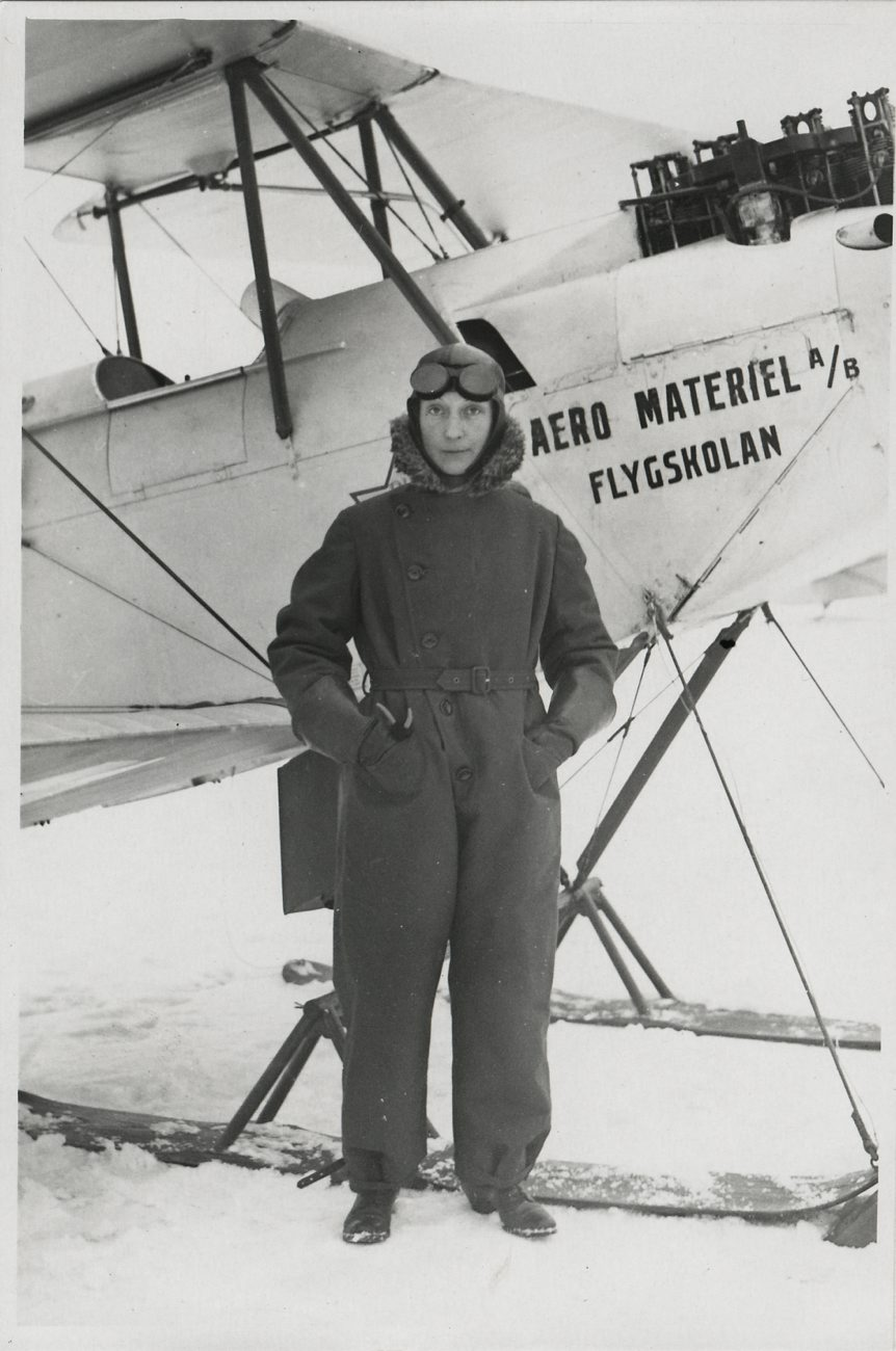 Miss Prim with aeroplane at the flight school Aero Material in Stockholm, Sweden, circa 1920. Fröken Prim (sign. Envar) Stockholm med plan från Aero Materiel AB:s flygskola. Photo by Karl Walberg